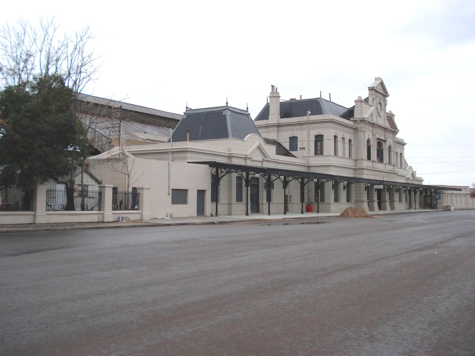 Bahía Blanca train station.